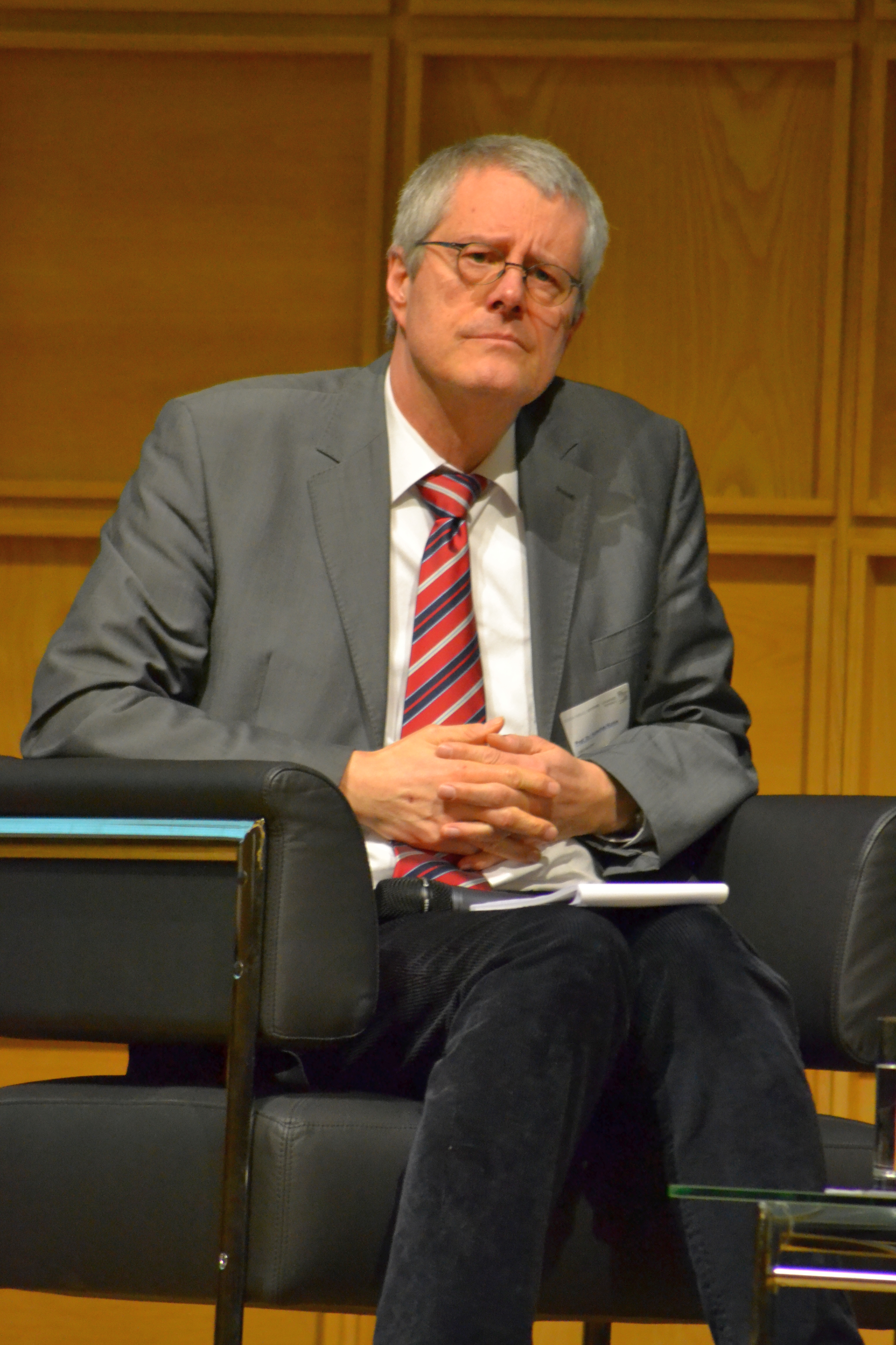 Conference "Die Zukunft der Wissensspeicher: Forschen, Sammeln und Vermitteln im 21. Jahrhundert" ("Future of the knowledge stores") of the University of Konstanz with the Gerda Henkel Stiftung at the Nordrhein-Westfälischen Akademie der Wissenschaften und Künste in Düsseldorf on 5th and 6th of March 2015.